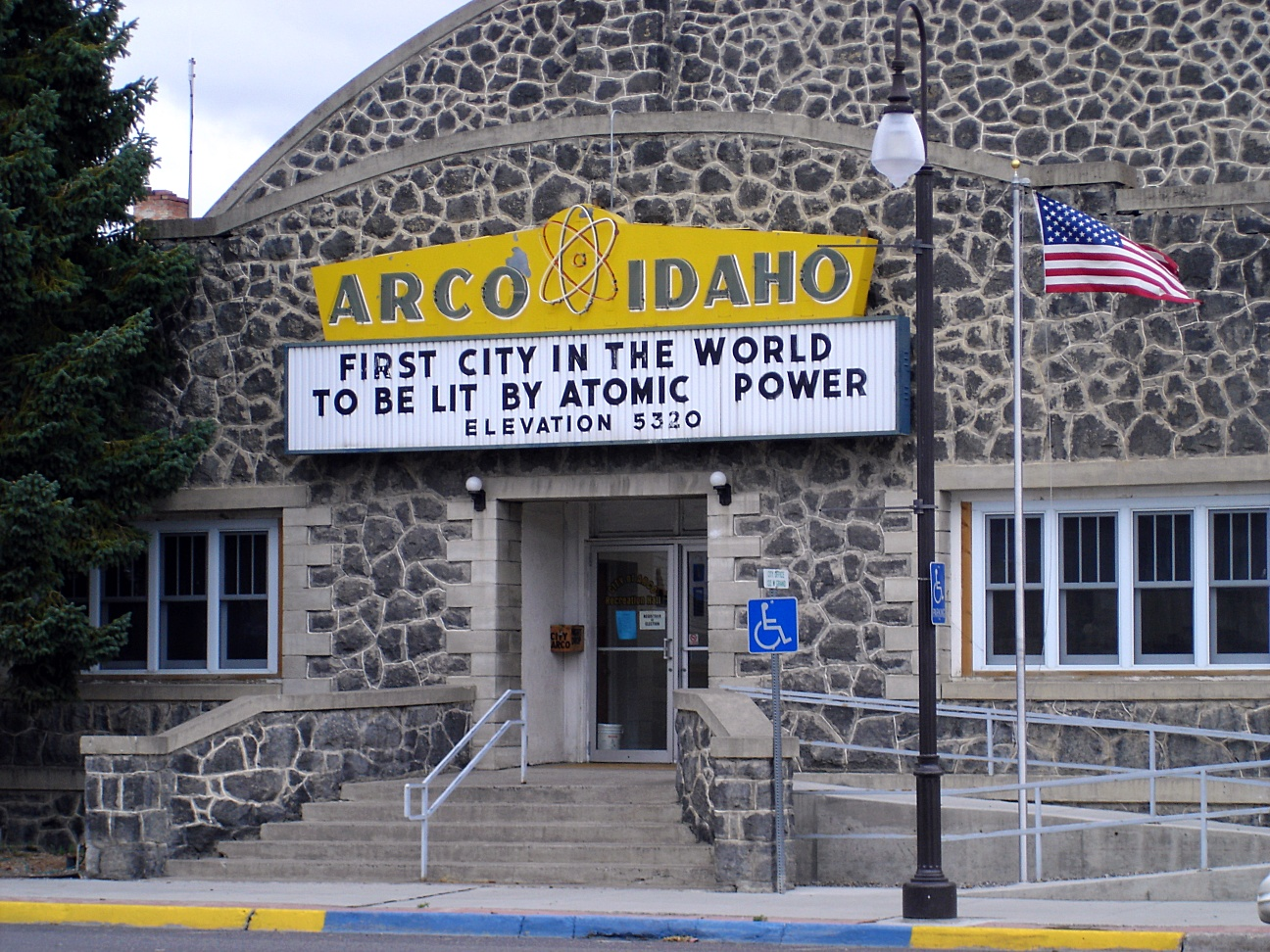 Photo of Main St., Arco, Idaho